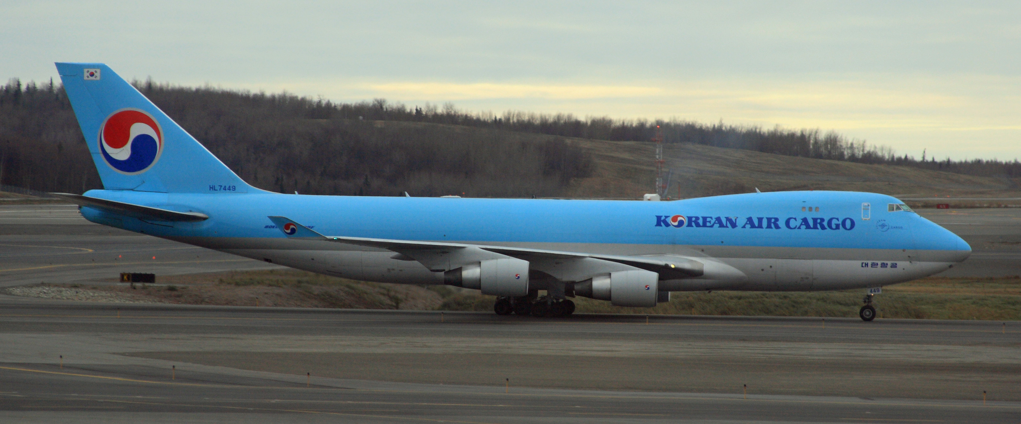 A Korean Air Cargo Boeing 747. This photo was taken at Anchorage Airport in November 2009. It was a busy time at the airport with a lot of cargo jets coming in..